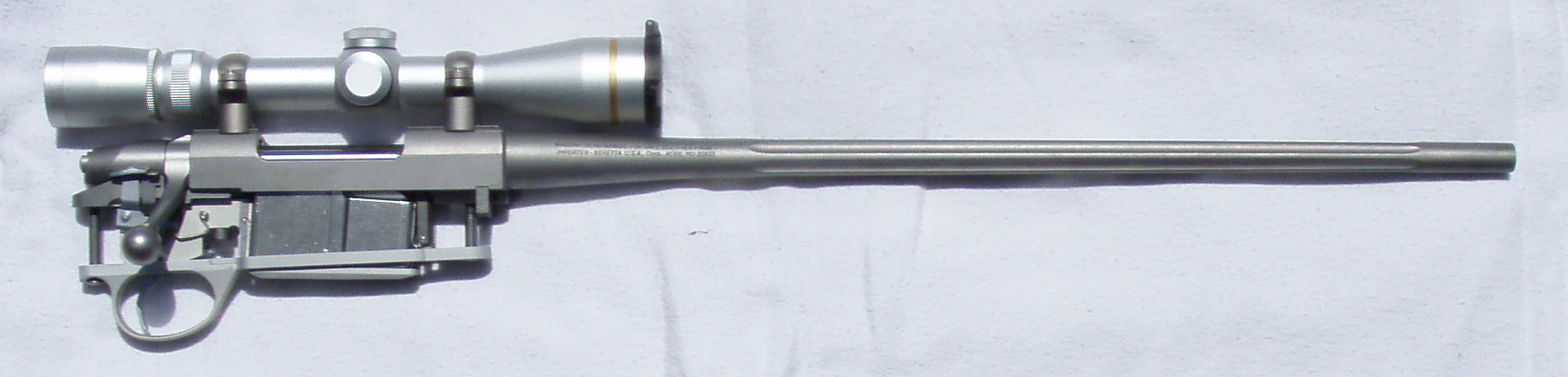 Barreled rifle action for Sako Finnlight .243 caliber bolt-action